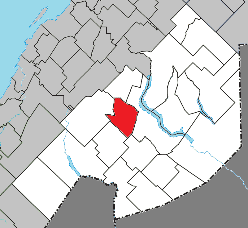 Location of Saint-Louis-du-Ha! Ha!, Quebec within Témiscouata Regional County Municipality.